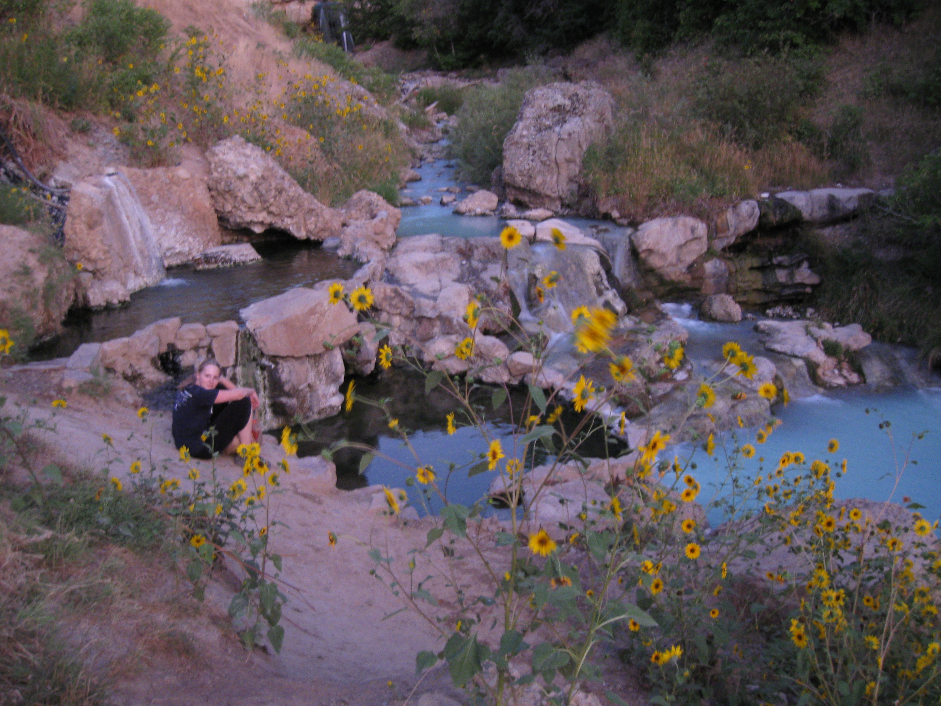 5th Water Hotsprings